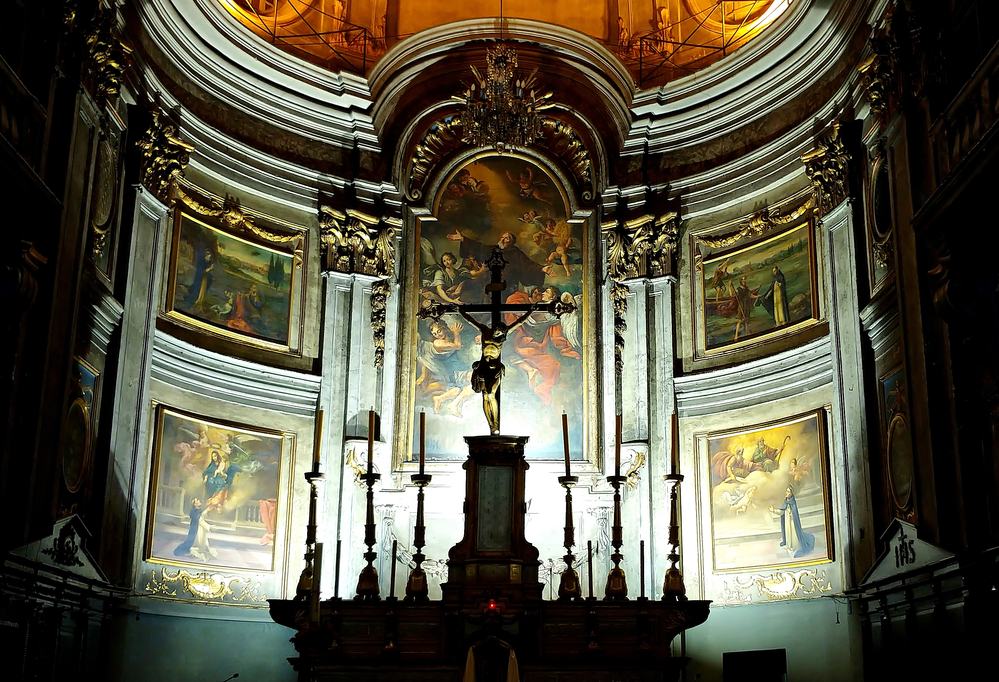 Saint-François-de-Paule Church at Nice in Alpes-Maritimes